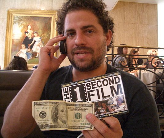 Brett Ratner holding a $100 bill and a producer credit for The 1 Second Film while at the Toronto Film Festival.